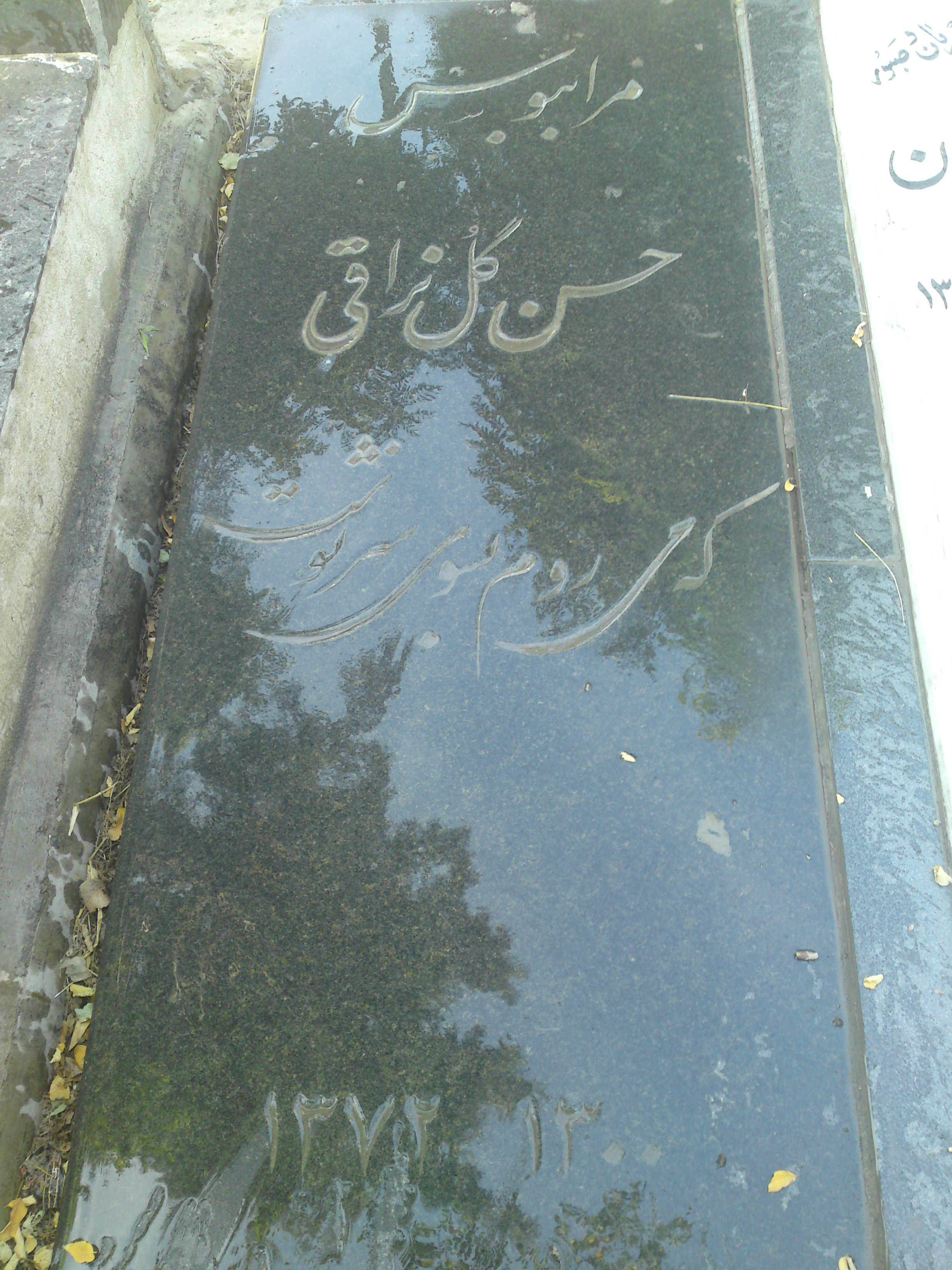 Tomb of Hasan gol naraghi.